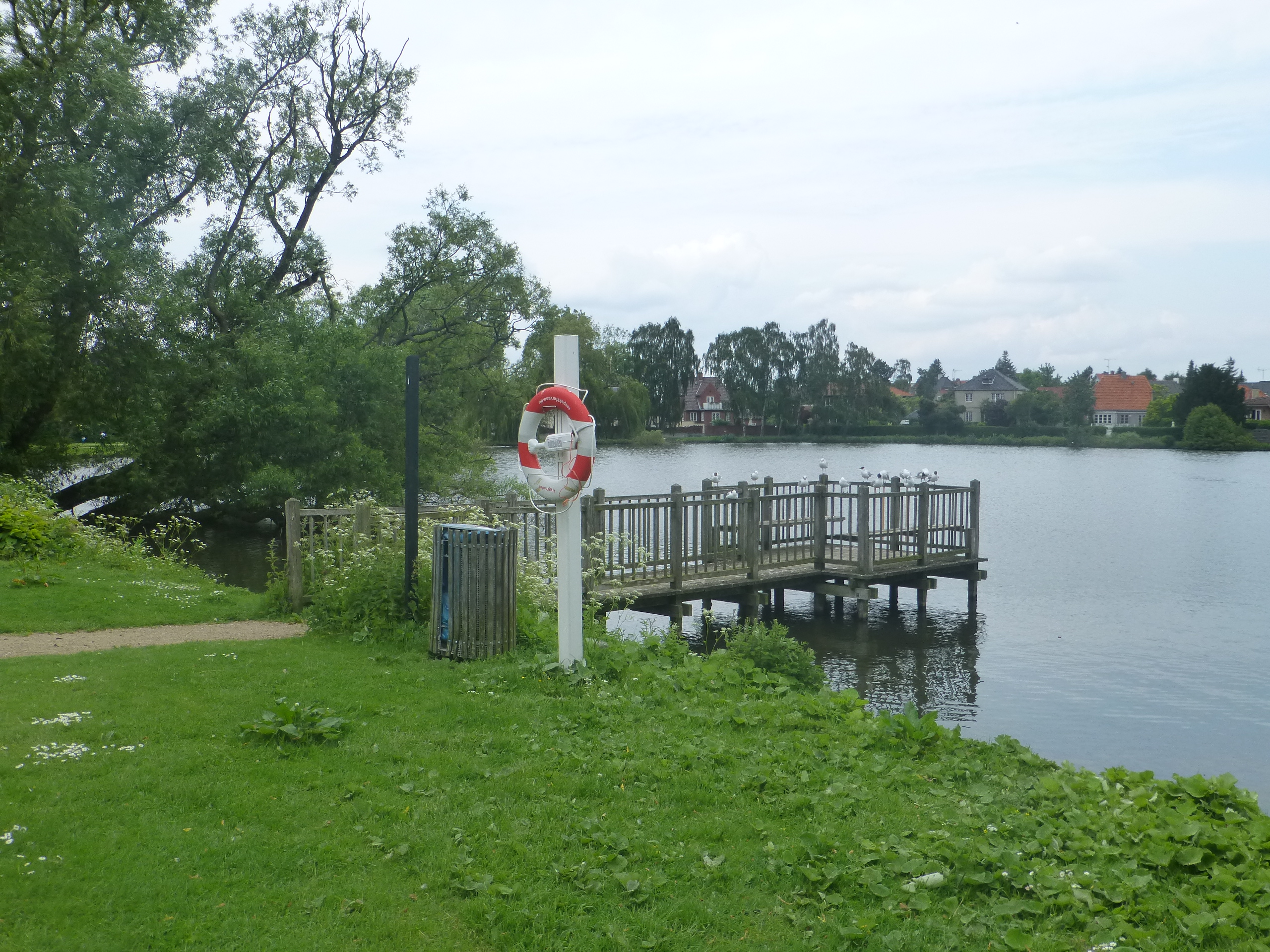 The lake Emdrup Sø in Østerbro in Copenhagen.